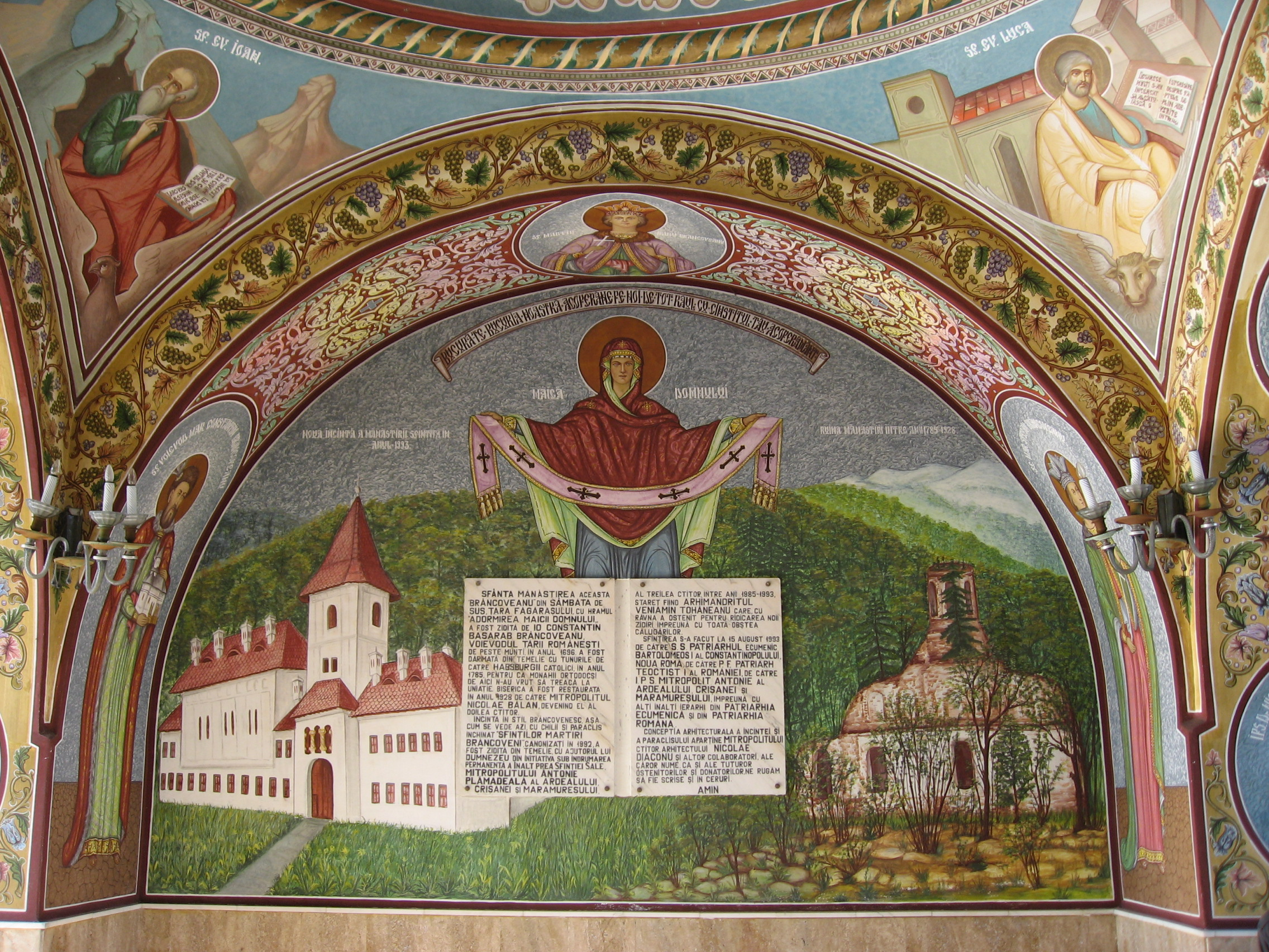 inscription at the gate building of the court of the Sâmbăta monastery, blaming the catholic Habsburgs of Austria for the Secularization of the monastery 1785 under Emperor Joseph II.